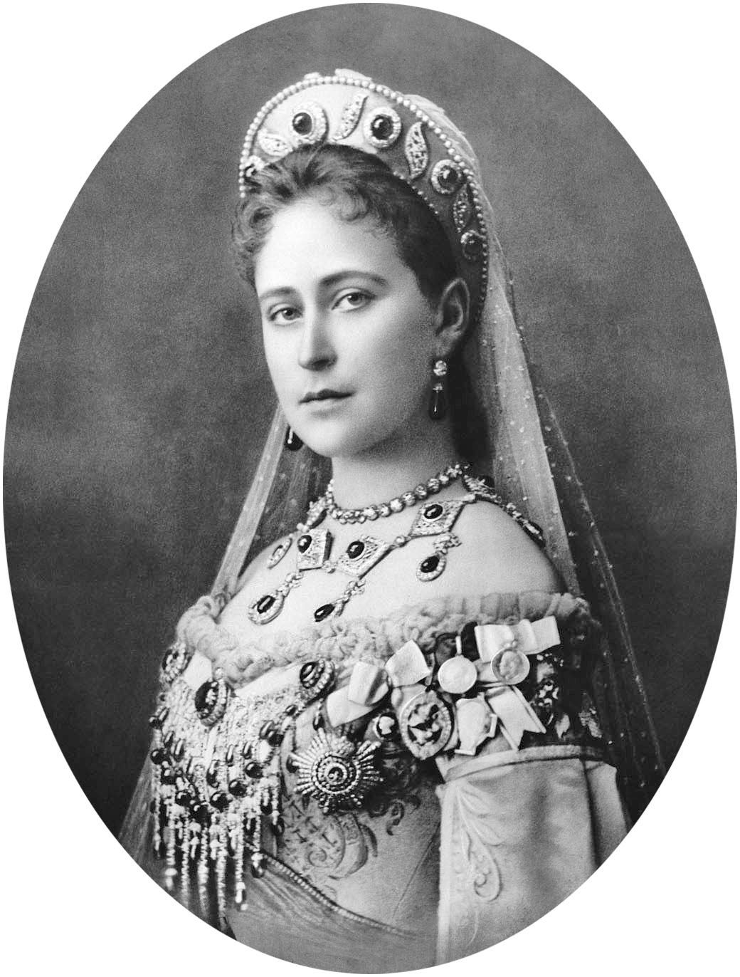 Portrait of the Grand Duchess Elizabeth (1864-1918)